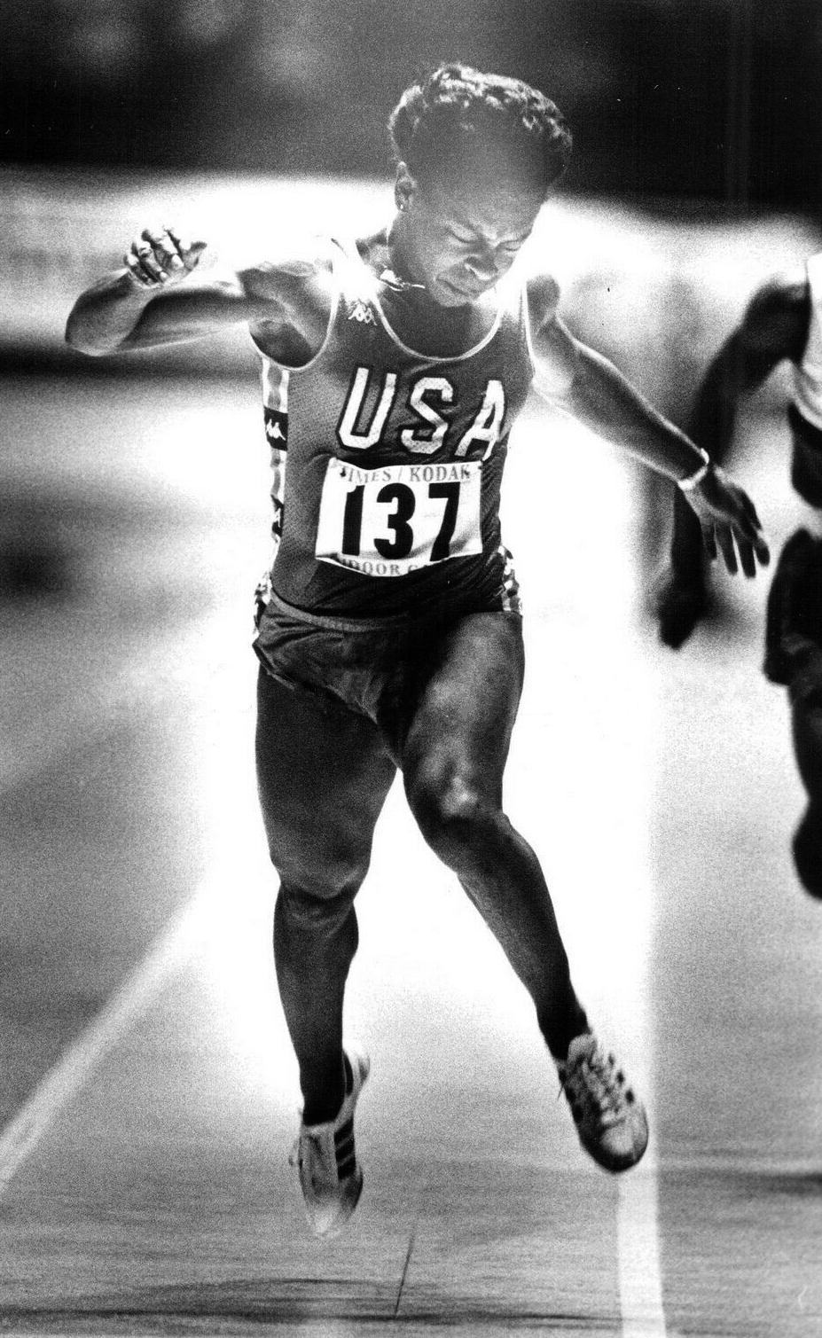 1984 Alice Brown Olympic 100 M Silver Metal Winner Original Press Photo